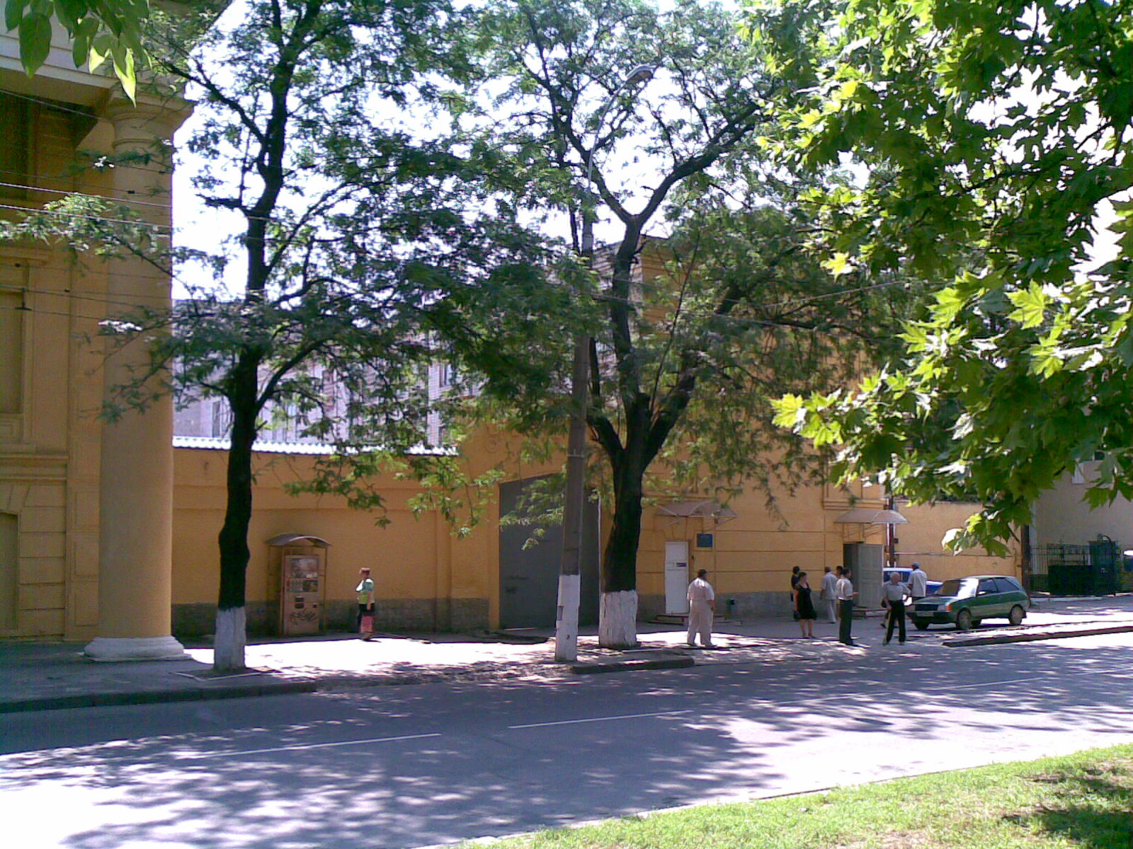 Kherson Prison (SIZO)